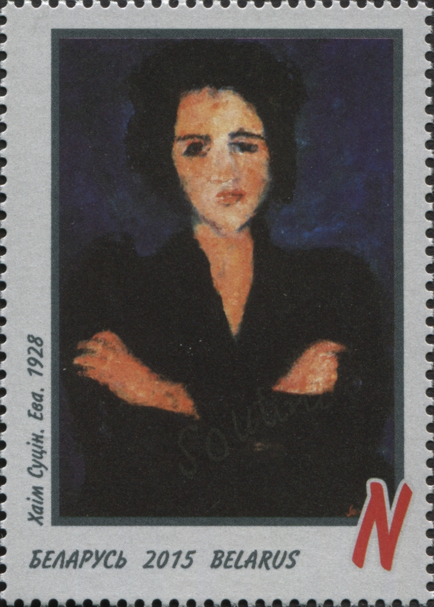 Stamps of Belarus, 2015